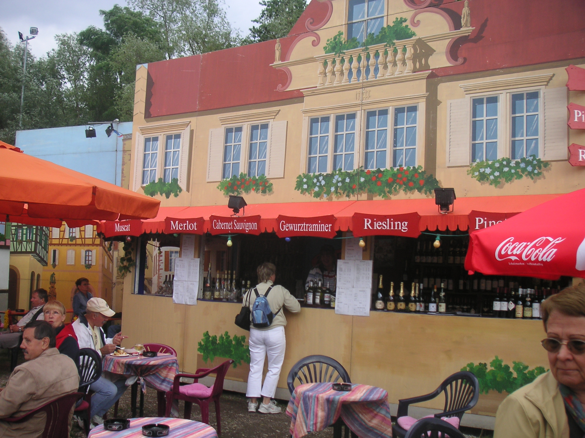 Deutsch-Französisches Volksfest 2008